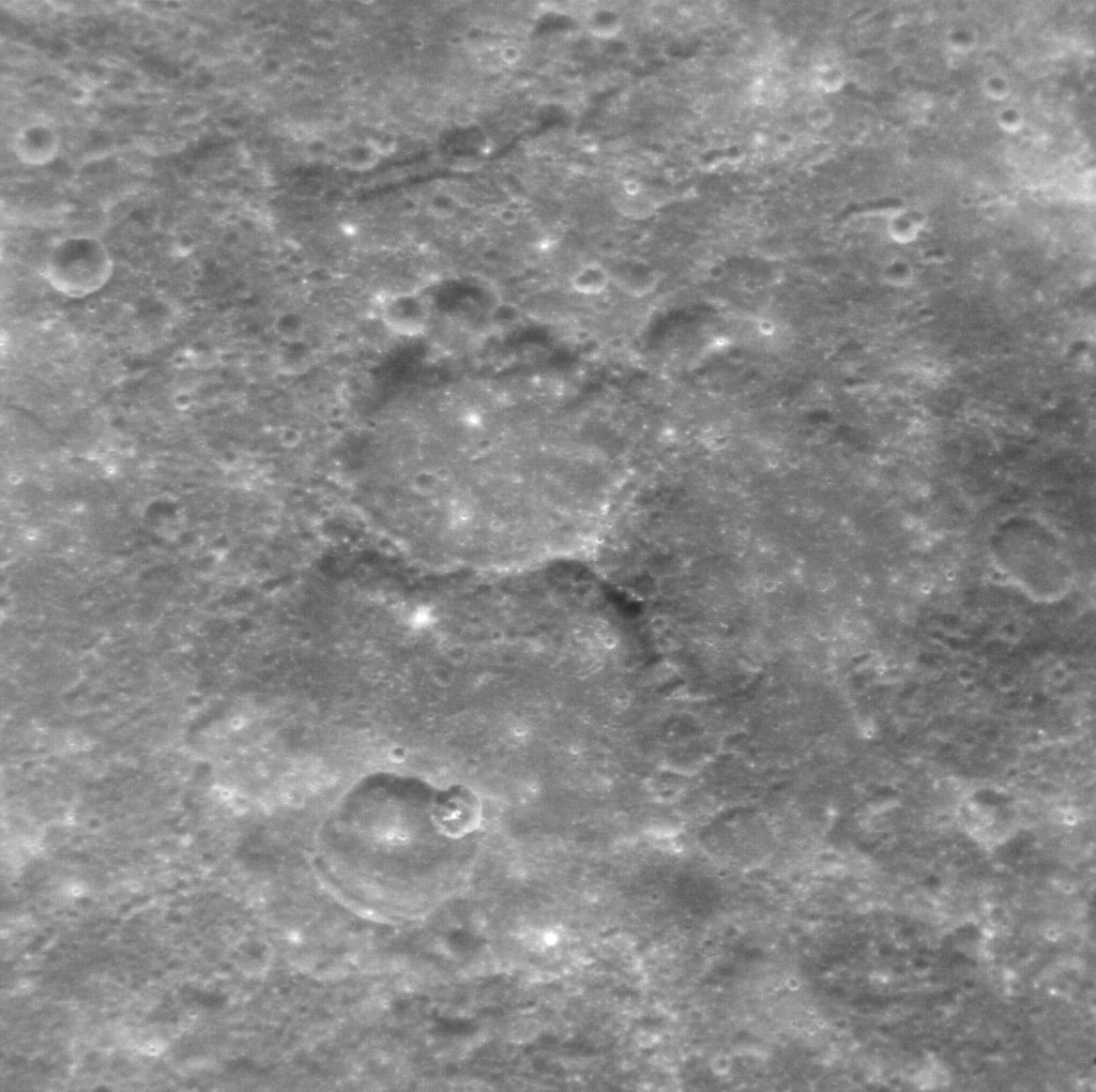 Sarmiento crater (below center) on Mercury. MESSENGER Narrow Angle Camera image. Approximate north is up. Width is approximately 203 km. Emission Angle: 24.0 Incidence Angle: 28.3 Latitude: -28.2 Longitude: 171.0 Phase Angle: 52.2